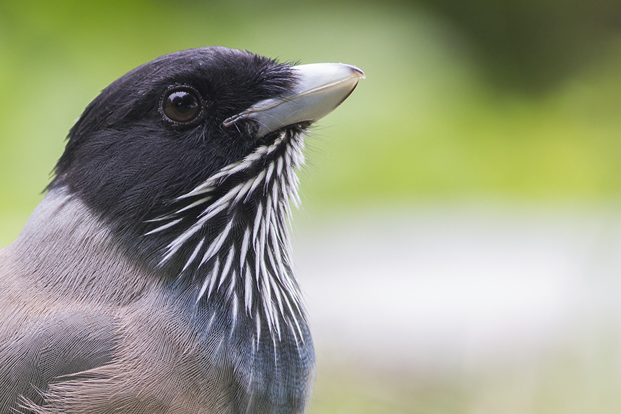 The specie Black-headed Jay had been photographed during the birding and bird photography workshop arranged by GoingWild and photographed from Pangot, Uttarakhand, India on 04.10.2014.